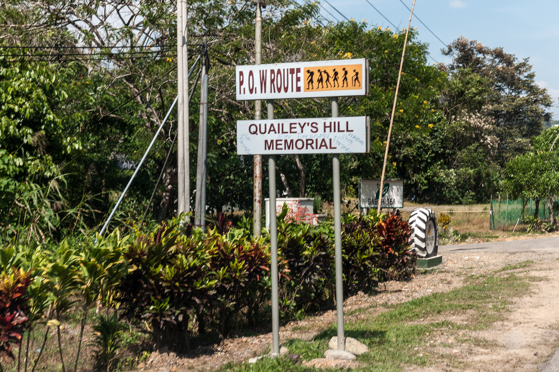 Ranau, Sabah: Quailey's Hill Memorial, Plate at the route A4